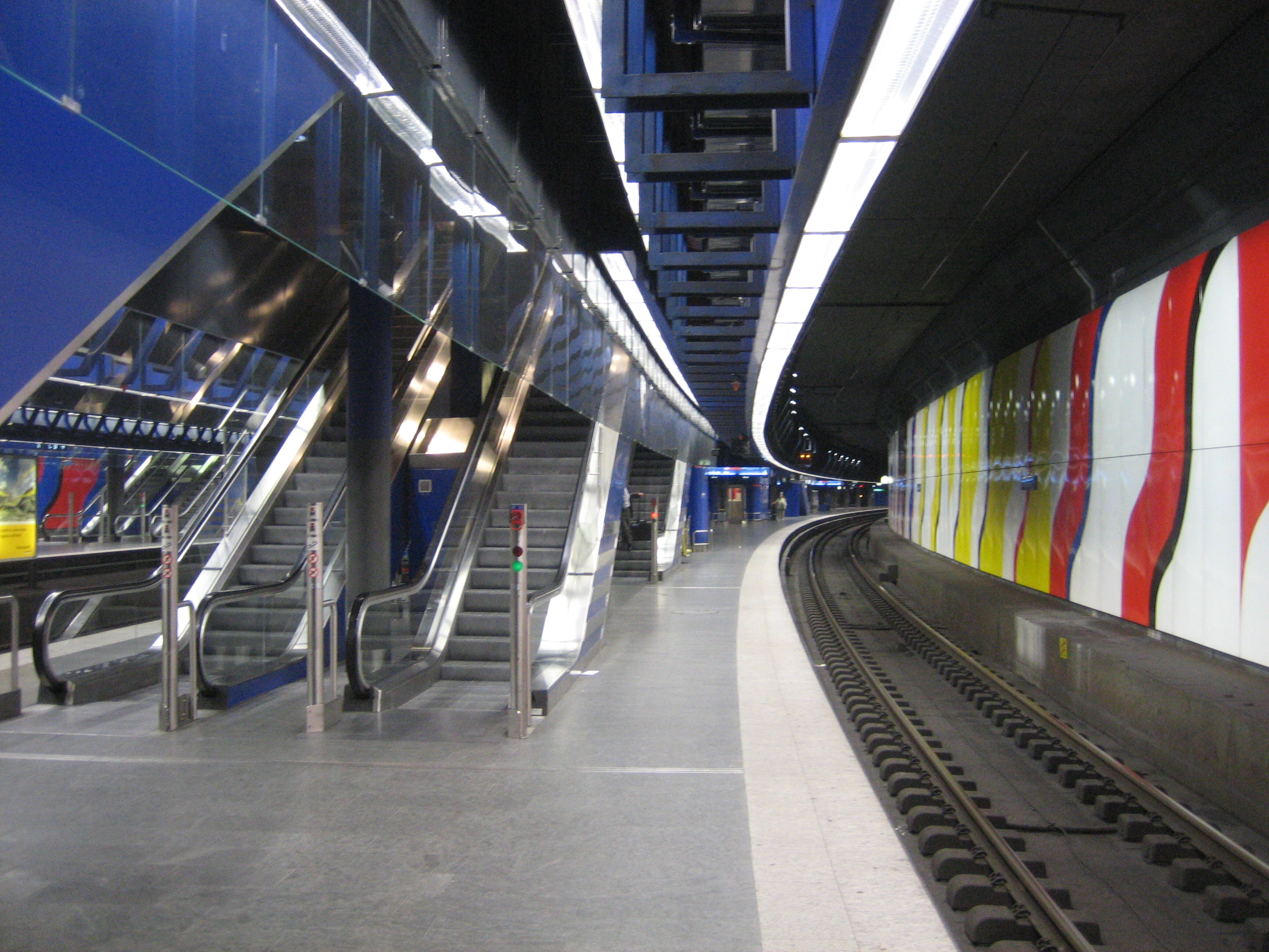 On the platform at Zürich Airport railway station in 2006.